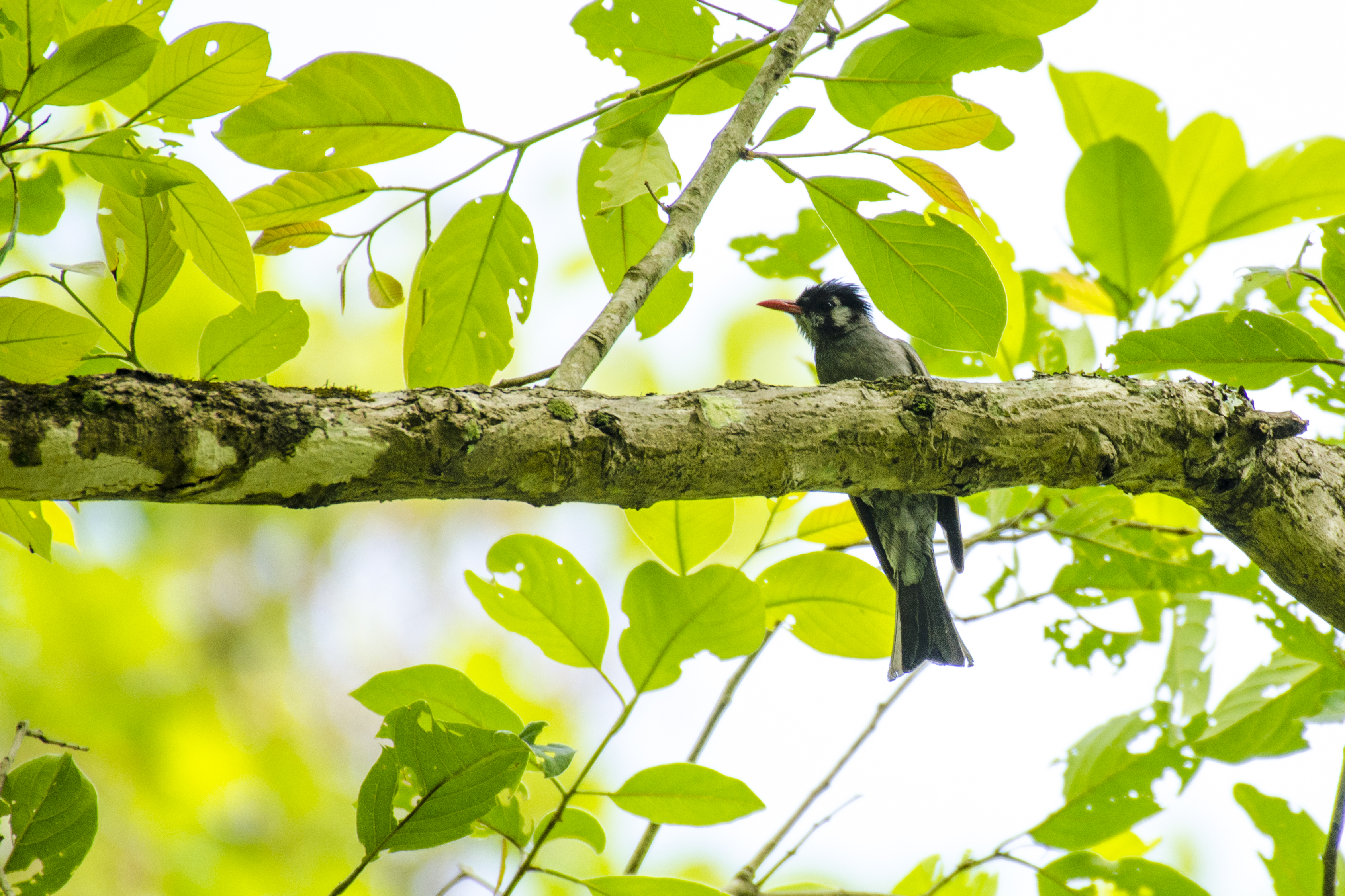 The black bulbul (Hypsipetes leucocephalus), also known as the Himalayan black bulbul or Asian black bulbul, is a member of the bulbul family of passerine birds. It is found in southern Asia from India east to southern China. It is the type species of the genus Hypsipetes, established by Nicholas Aylward Vigors in the early 1830s.[2] There are a number of subspecies across Asia, mostly varying in the shade of the body plumage (ranging from grey to black), and some also occur in white-headed morphs (as also suggested by its specific epithet leucocephalus, literally "white head"). The legs and bill are always rich orange-red. The related form from the Western Ghats and Sri Lanka is often treated as a separated species, the square-tailed bulbul (Hypsipetes ganeesa). Further reading